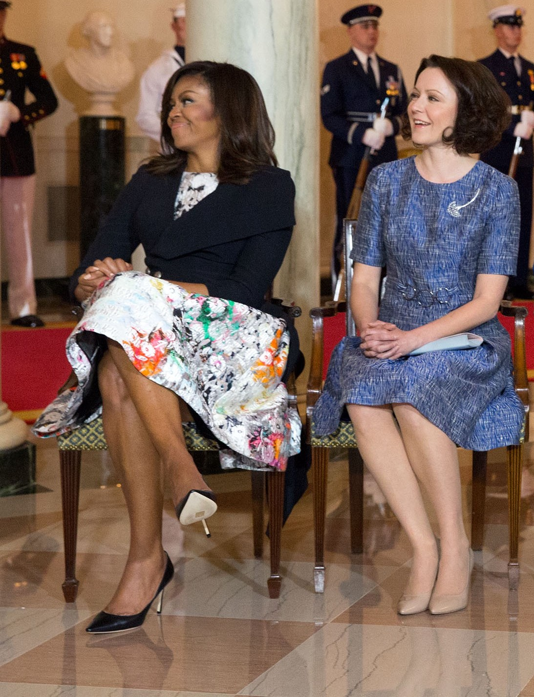 Mrs. Obama and Nordic leaders’ spouses react to President Obama’s remarks. (Official White House Photo by Amanda Lucidon)